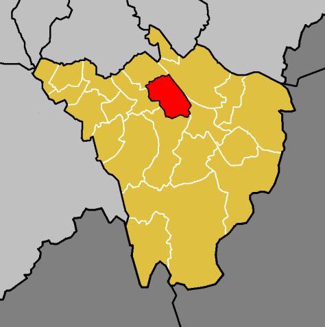 Simple map showing the location of the ward of Bickley within the London Borough of Bromley. Red = Bickley. Orange = London Borough of Bromley. Light grey = other London boroughs. Dark grey = Districts outside Greater London.